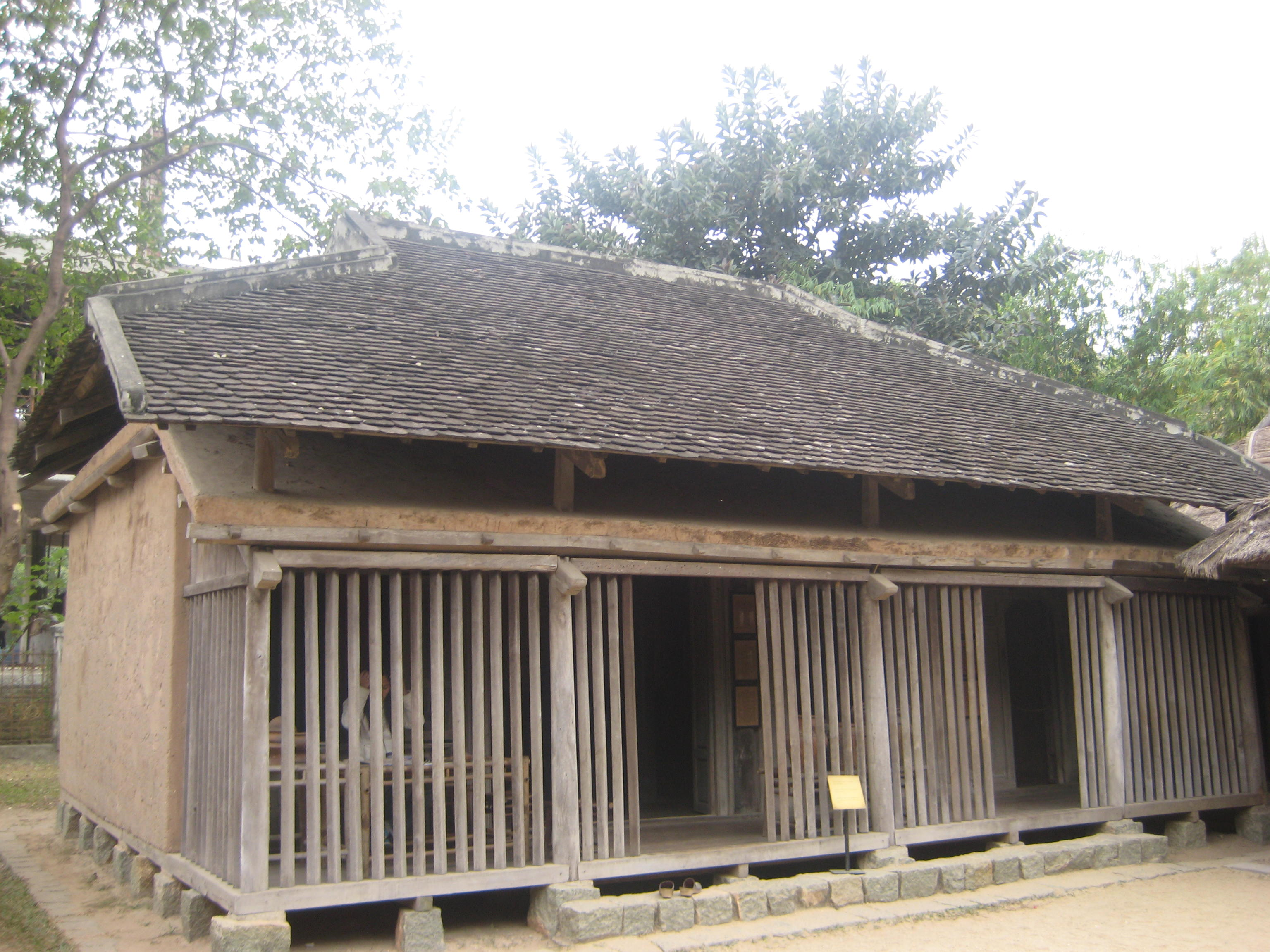 Chăm house, Vietnam